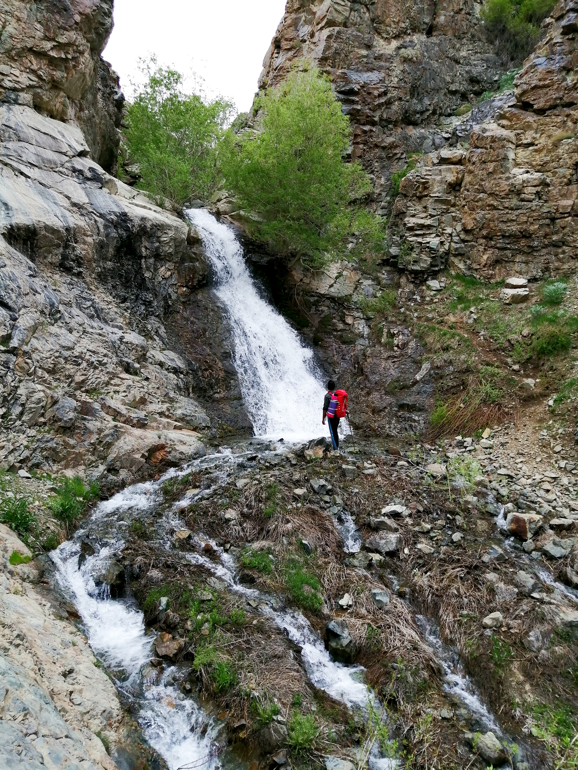 Talkheh char waterfalls,Kuh_e shah mountain